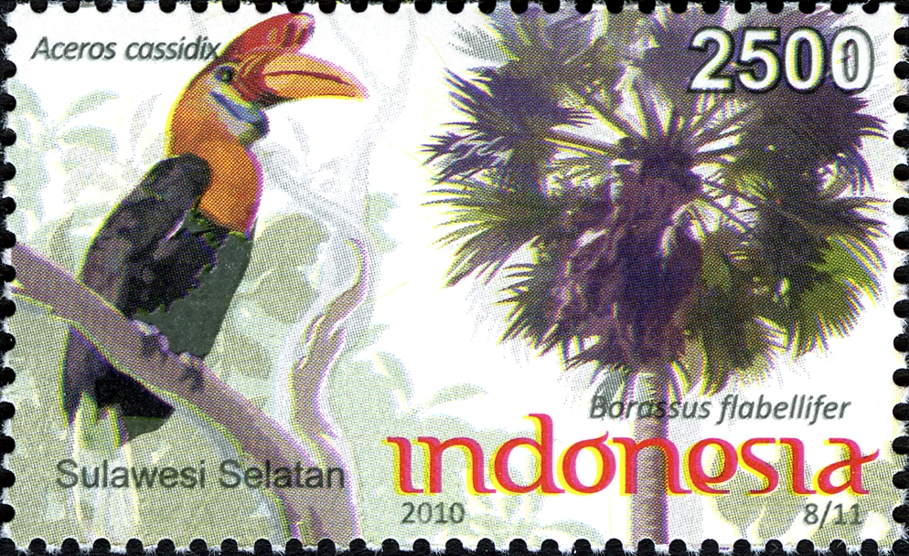 Stamps of Indonesia